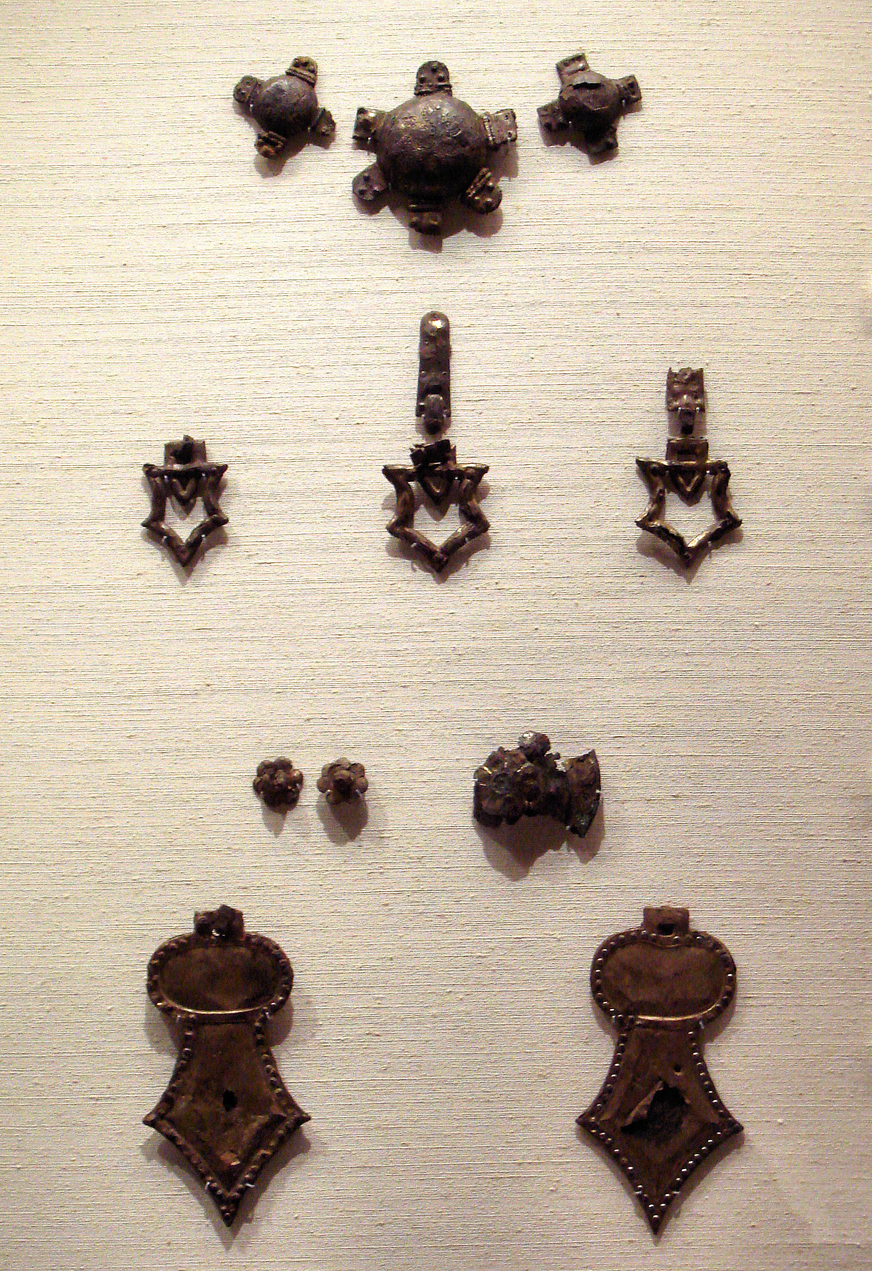 Kofun tomb jewelry. Harness fitting; made of gilt, stamped and incised copper. Center : Horse harness pendant, made of gilt bronze; pendant in pentagonal shape with triangular buckle. 6e C. H. 9cm.